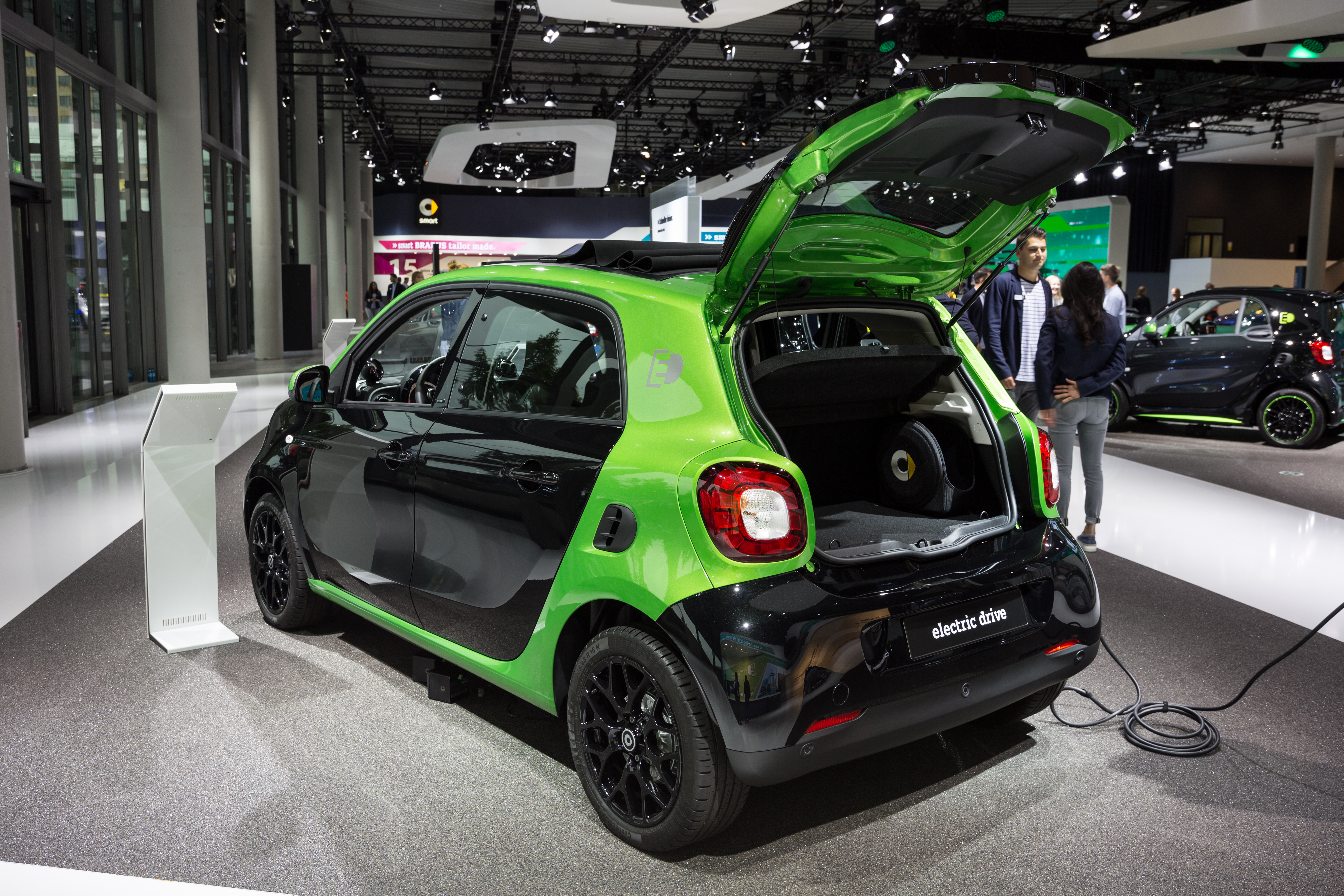 Smart Forfour electric drive, IAA 2017